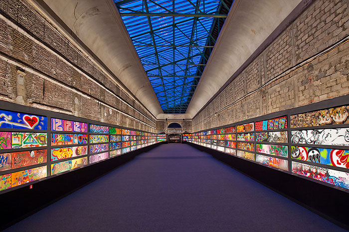 Picture of the exhibition of tag at the Grand Palais in Paris